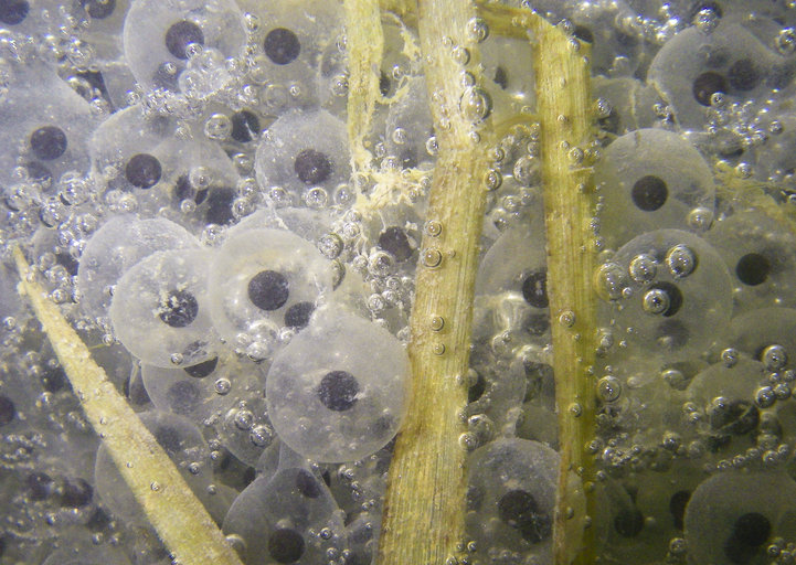 Rana draytonii egg mass in Marin Co., CA, USA